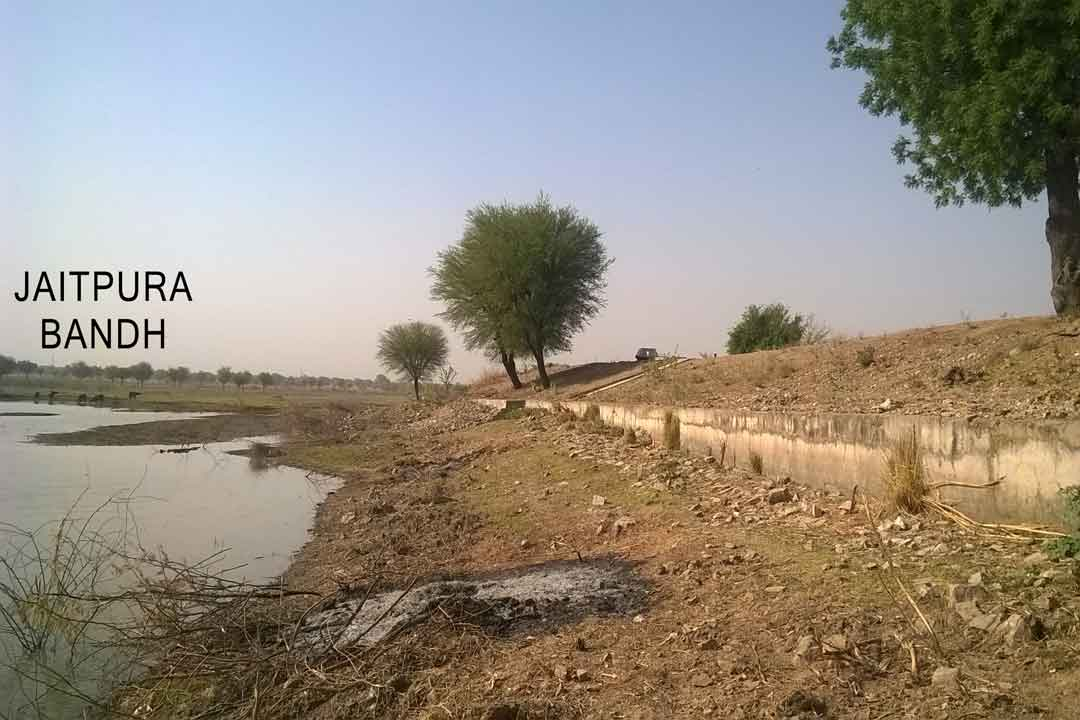 Jaitpura dam has water filling capacity of 10.86 Lakh Cubic Meters.